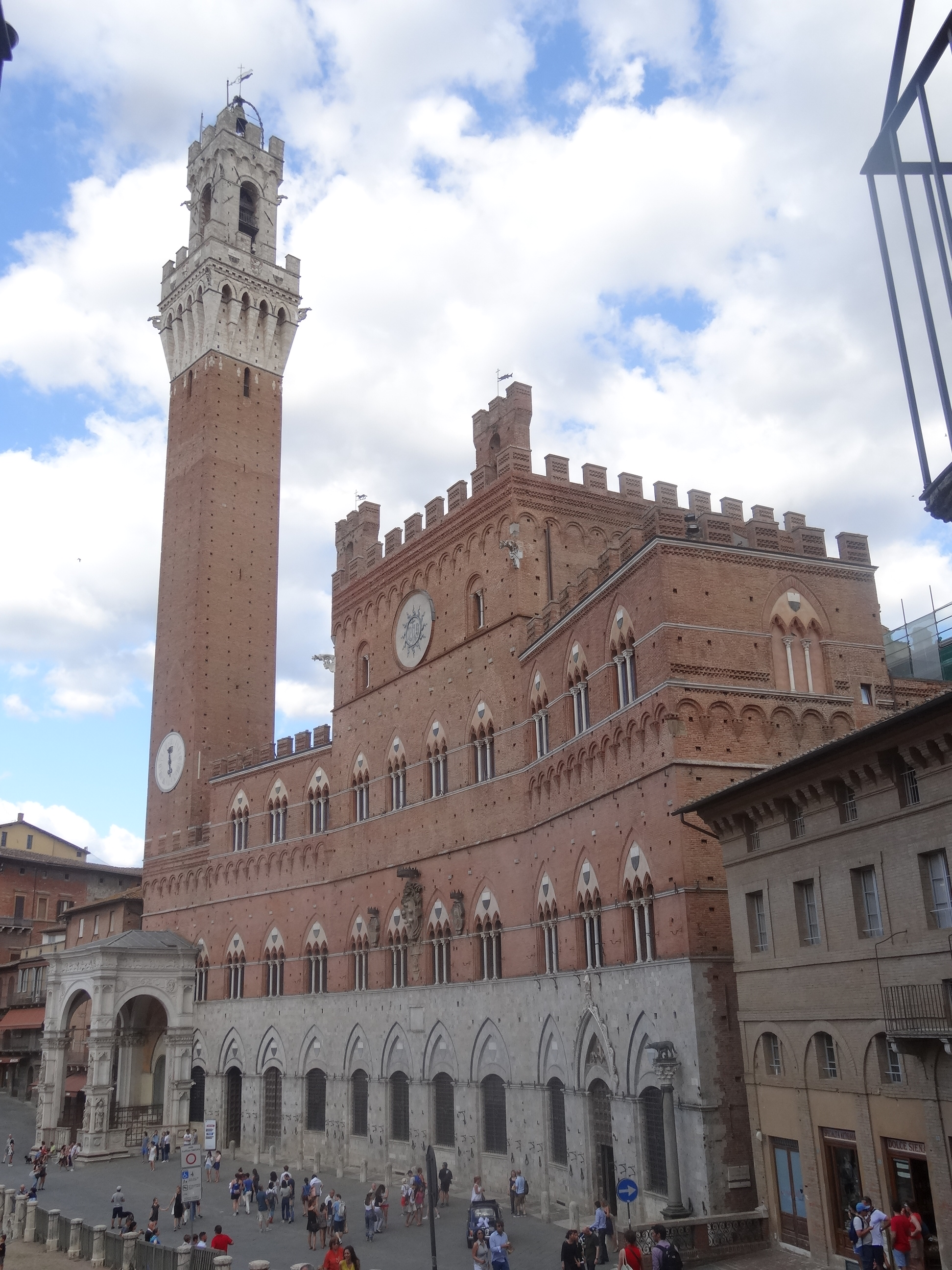 Palazzo Pubblico (Siena)